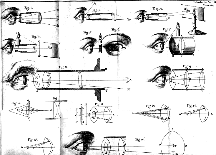 Maximilian Hell's drawings explaining the sightings of the Venus satellite